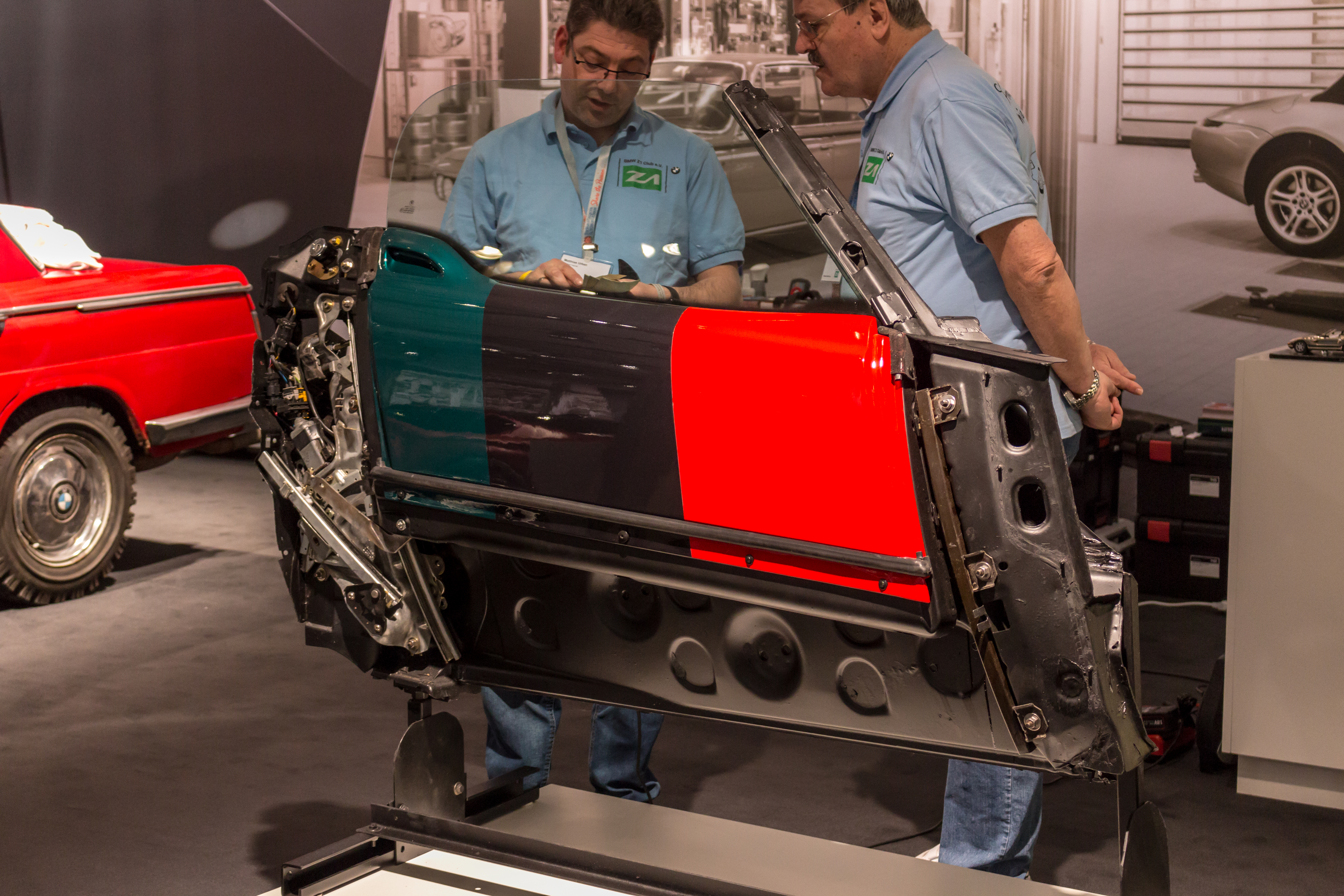 Techno Classica 2018, Essen